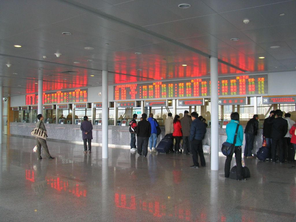 上海火車南站-大堂-售票處 Ticket Office of Shanghai South Railway Station